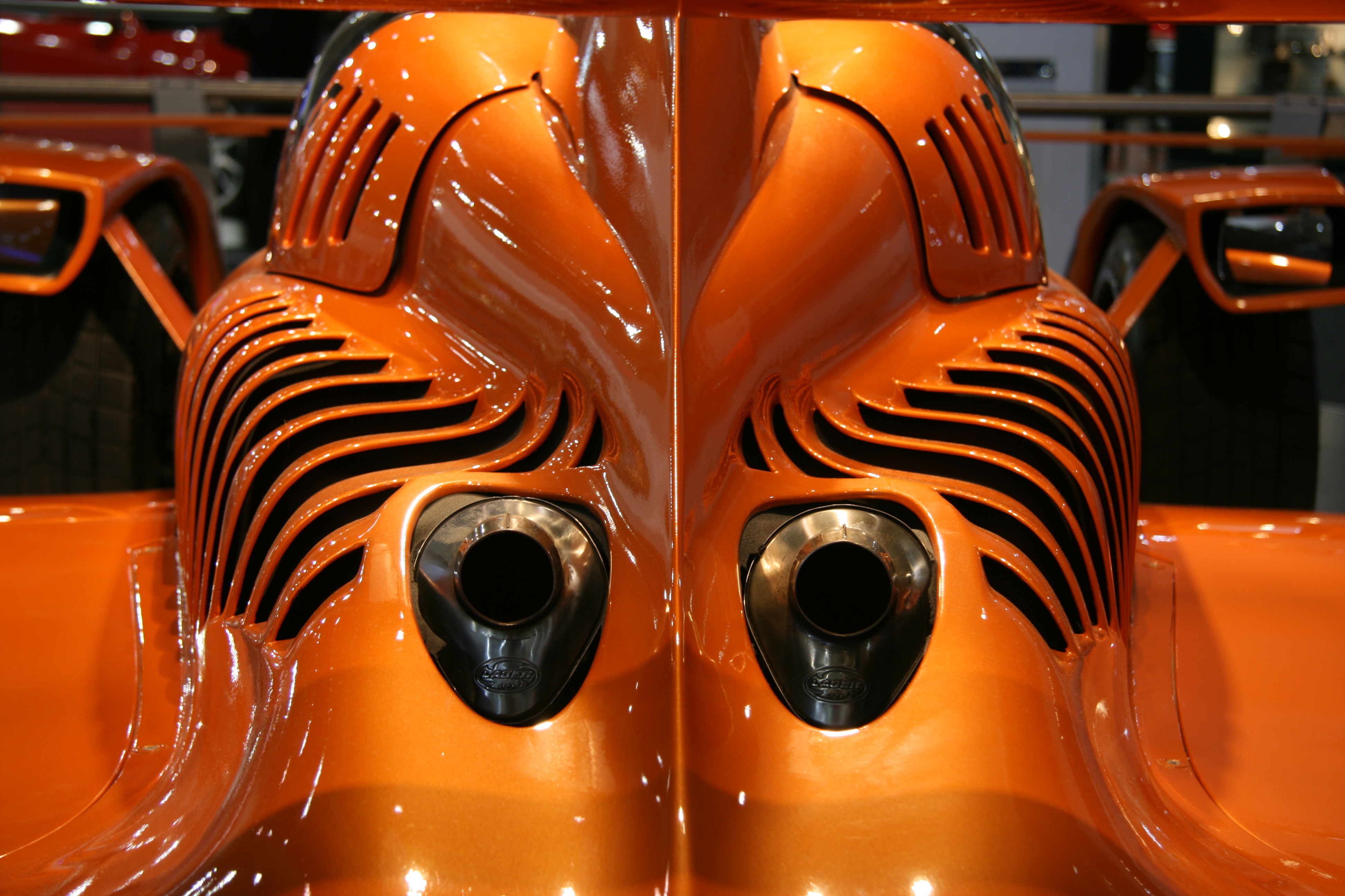 The rear of a Caparo T1